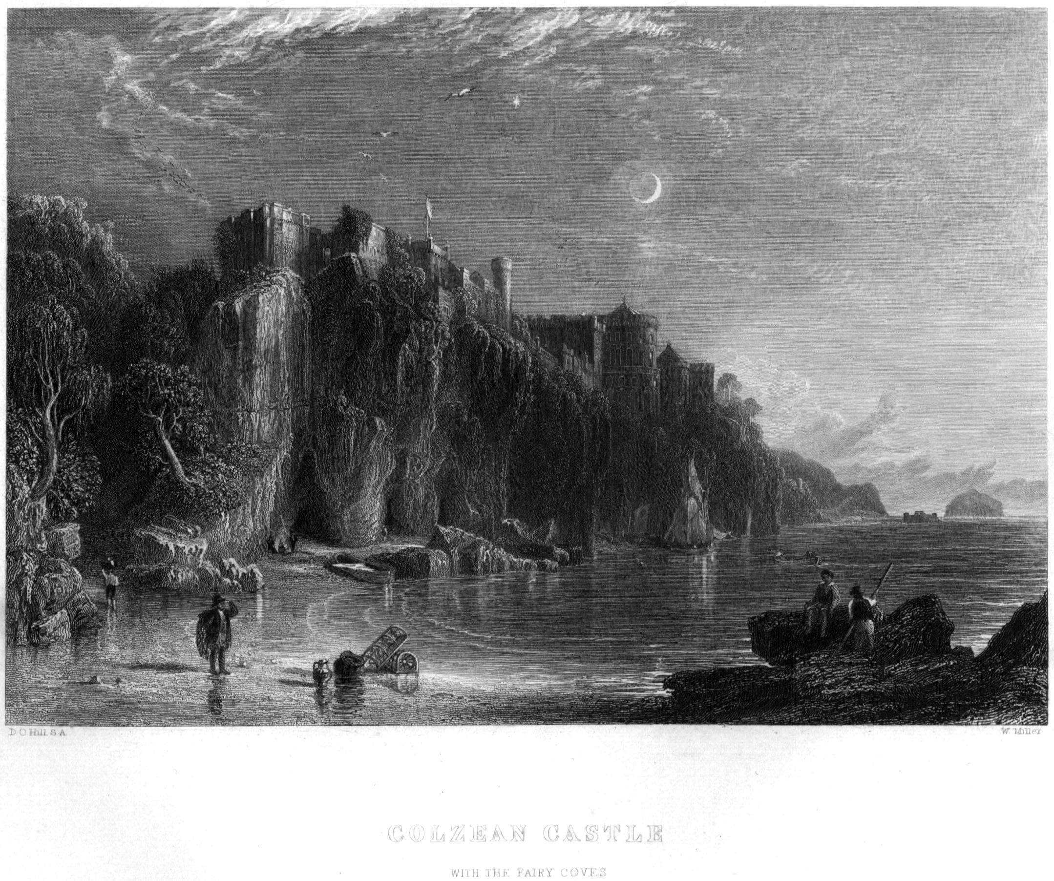 Culzean Castle with the Fair Coves engraving by William Miller after D O Hill from The Land of Burns, A Series of Landscapes and Portraits, Illustrative of the Life and Writings of the Scottish Poet. illus. with numerous engraved plates and portraits, the landscapes from paintings made expressly for the work by D.O. Hill. Wilson, Professor and Chambers, Robert, Glasgow: Blackie & Son, 1840